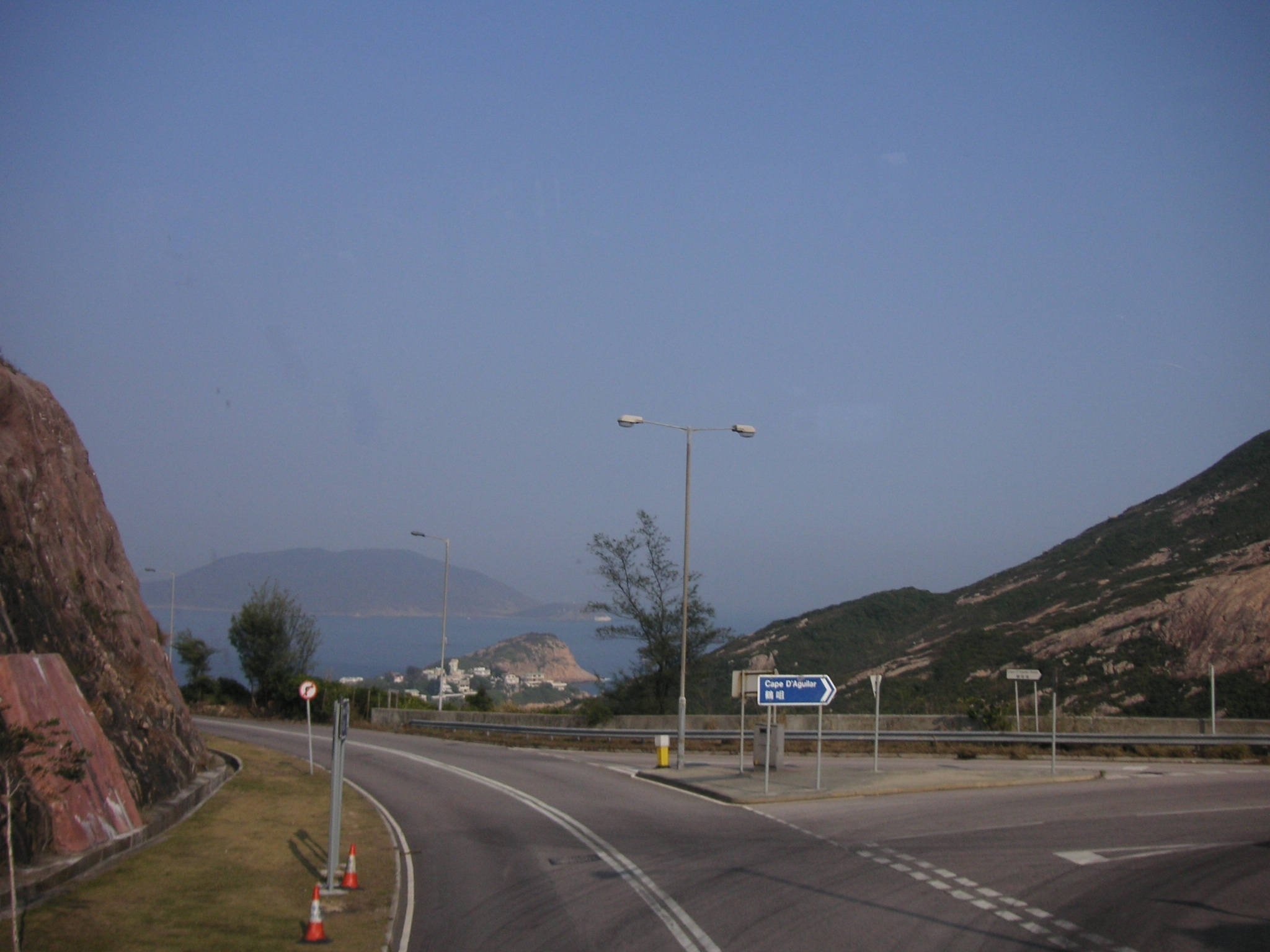 Driving on Shek O Road, provided here for historical purposes